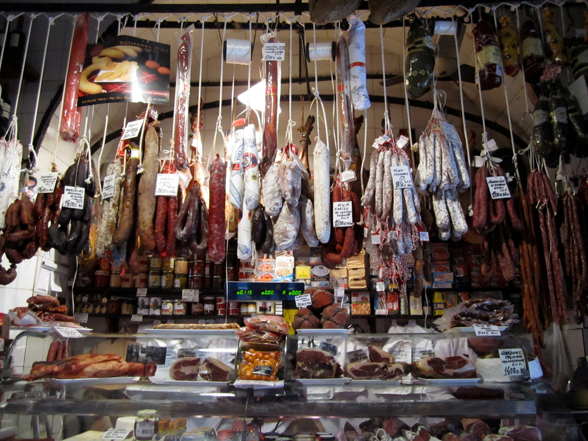 Photo taken from the main bar of La Pineda, in Vila-Seca, Spain.